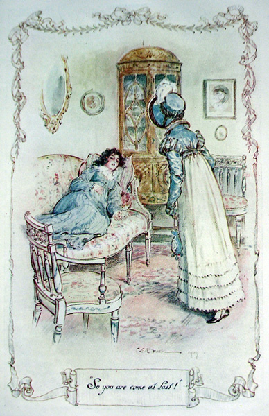 Persuasion, ch 5: Mary fells very ill, and waits impatiently for Anne